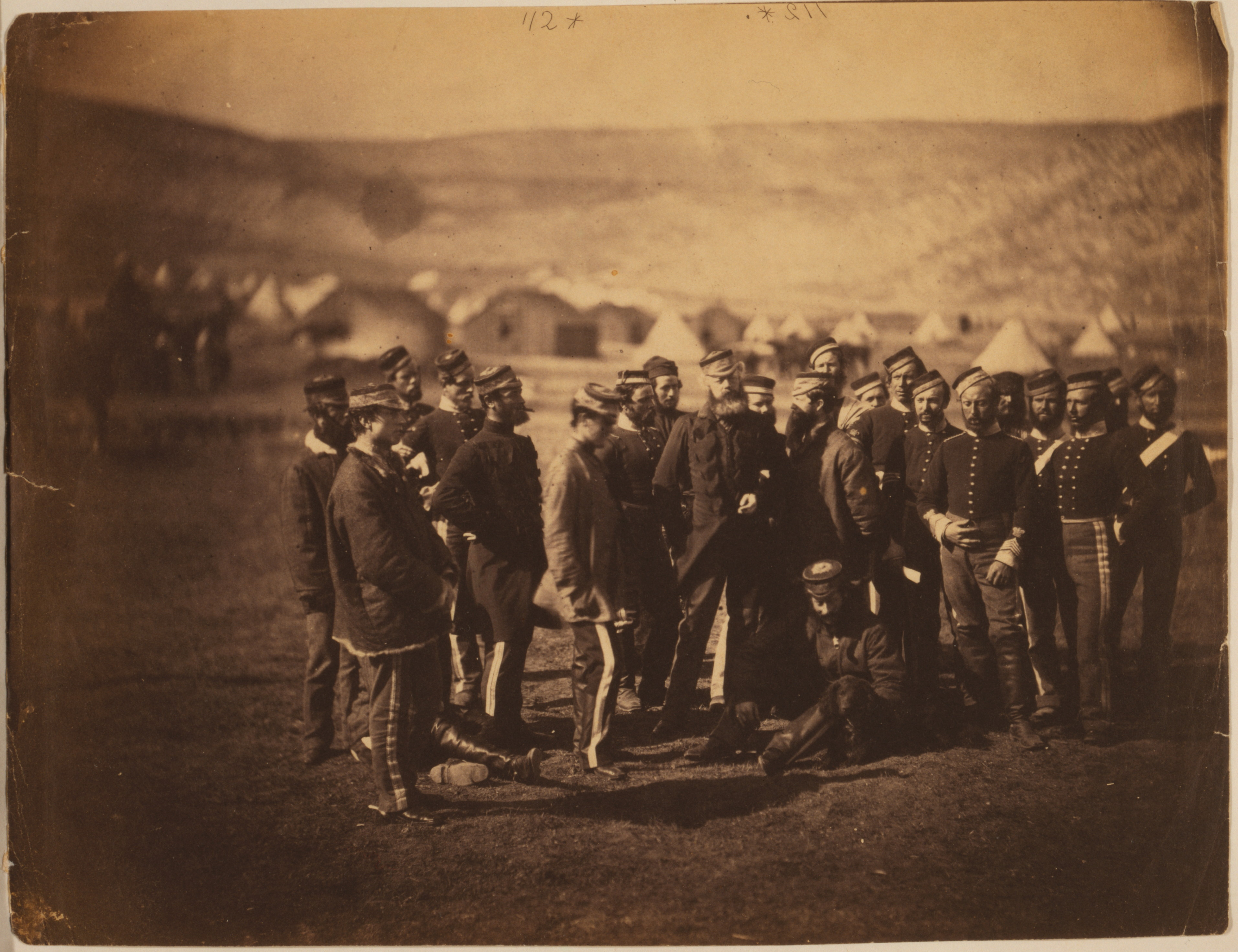 Officers and men of the 13th Light Dragoons, British Army, Crimea. Rostrum photograph of photographer's original print, uncropped and without color correction.